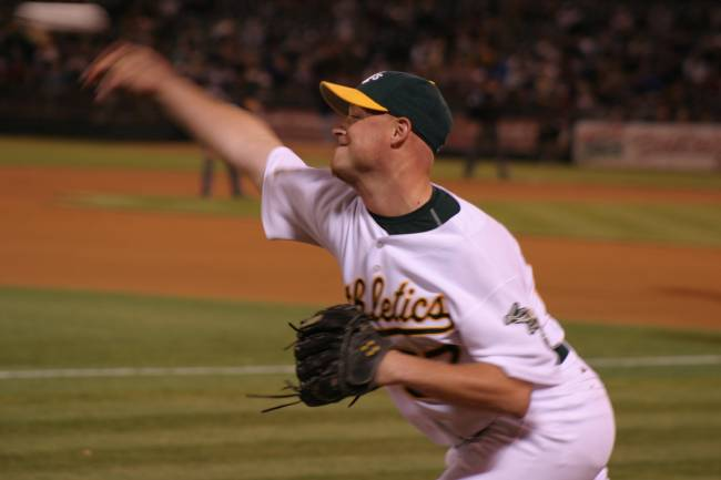 Photo by Justin Lafferty 23:48, 6 December 2006 . . Jlaff . . 650×433 (25 KB)